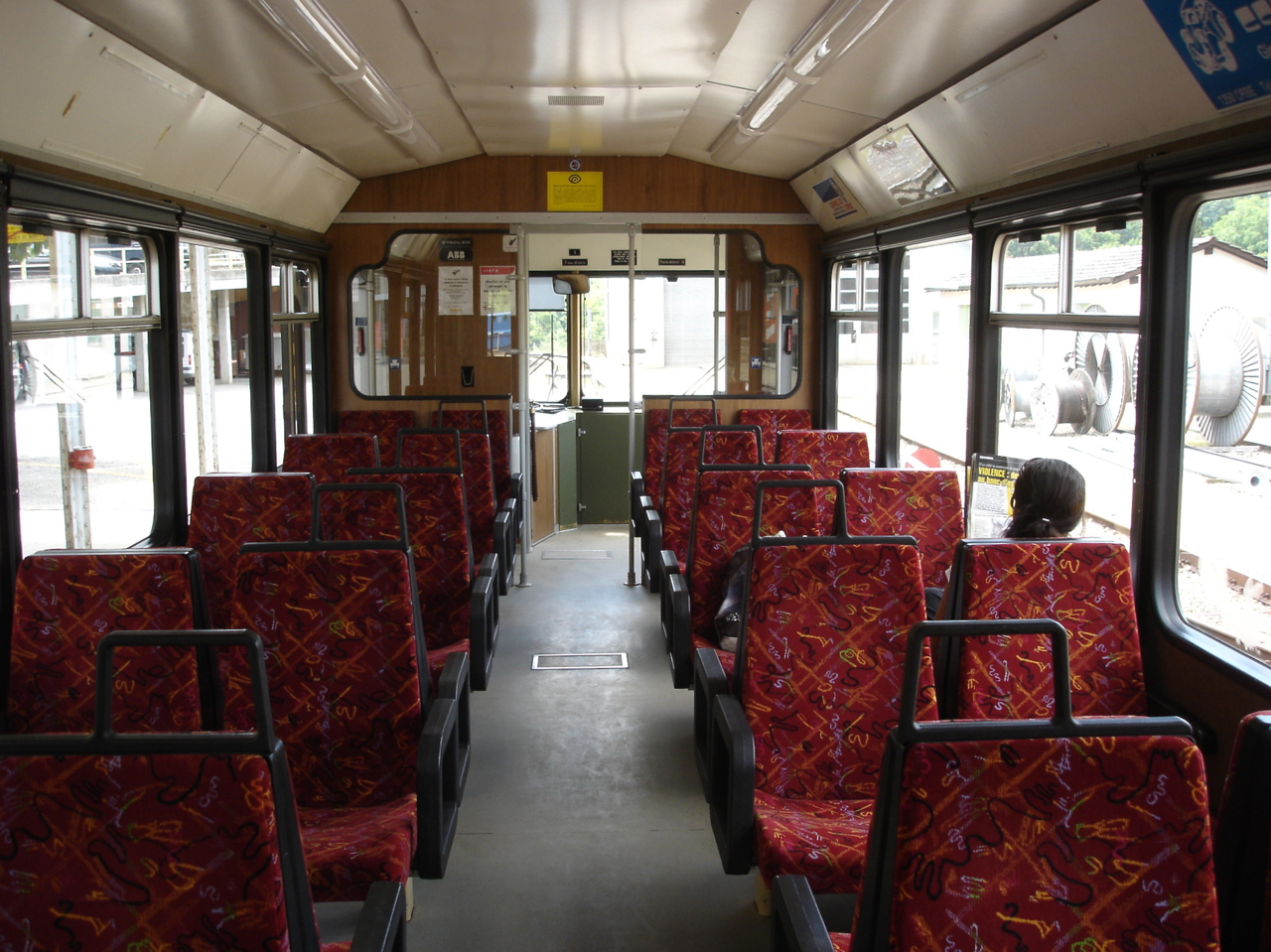 Interior of OC Be 2/2 14.